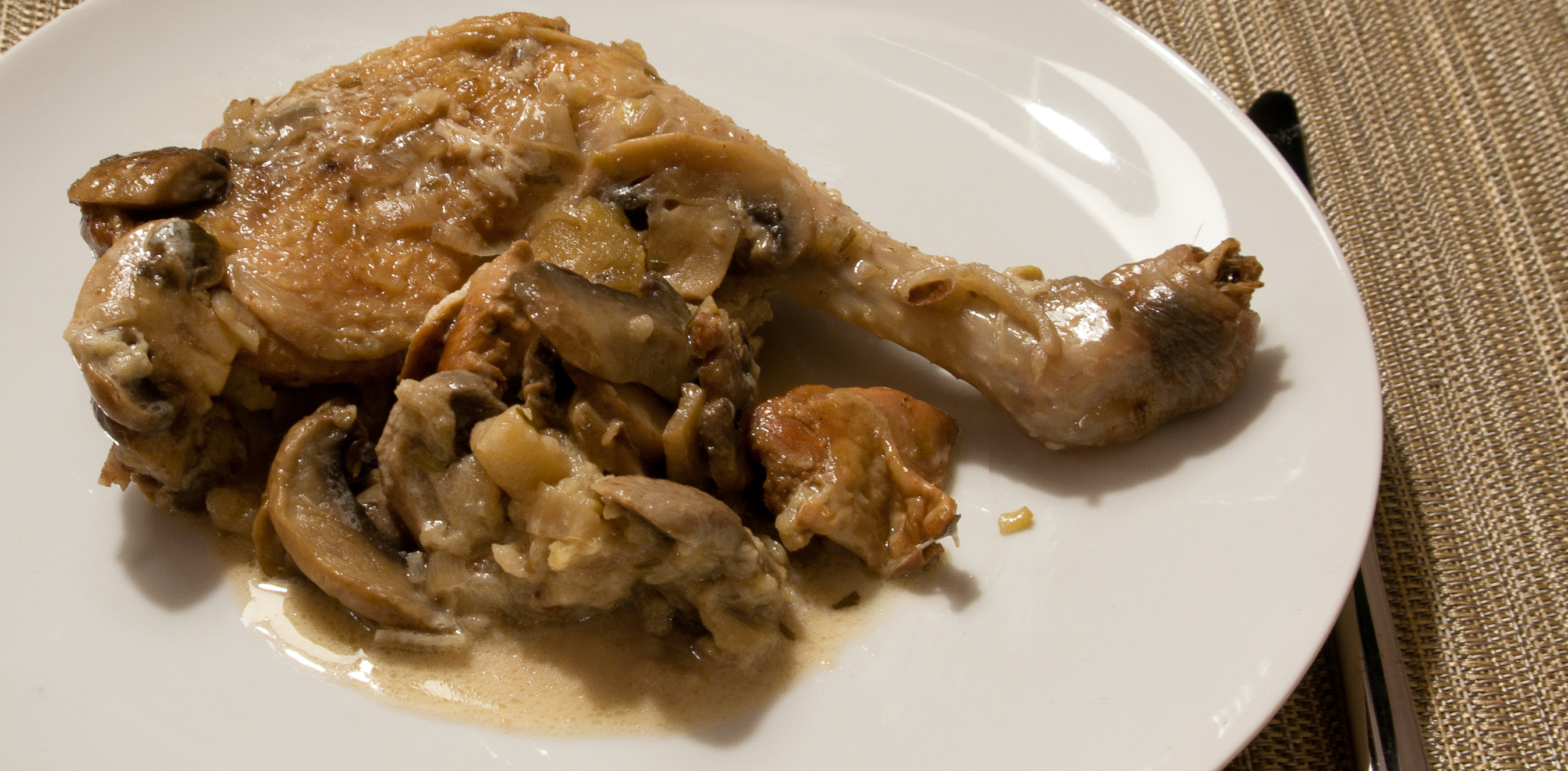 Poulet vallée d'Auge (close-up)